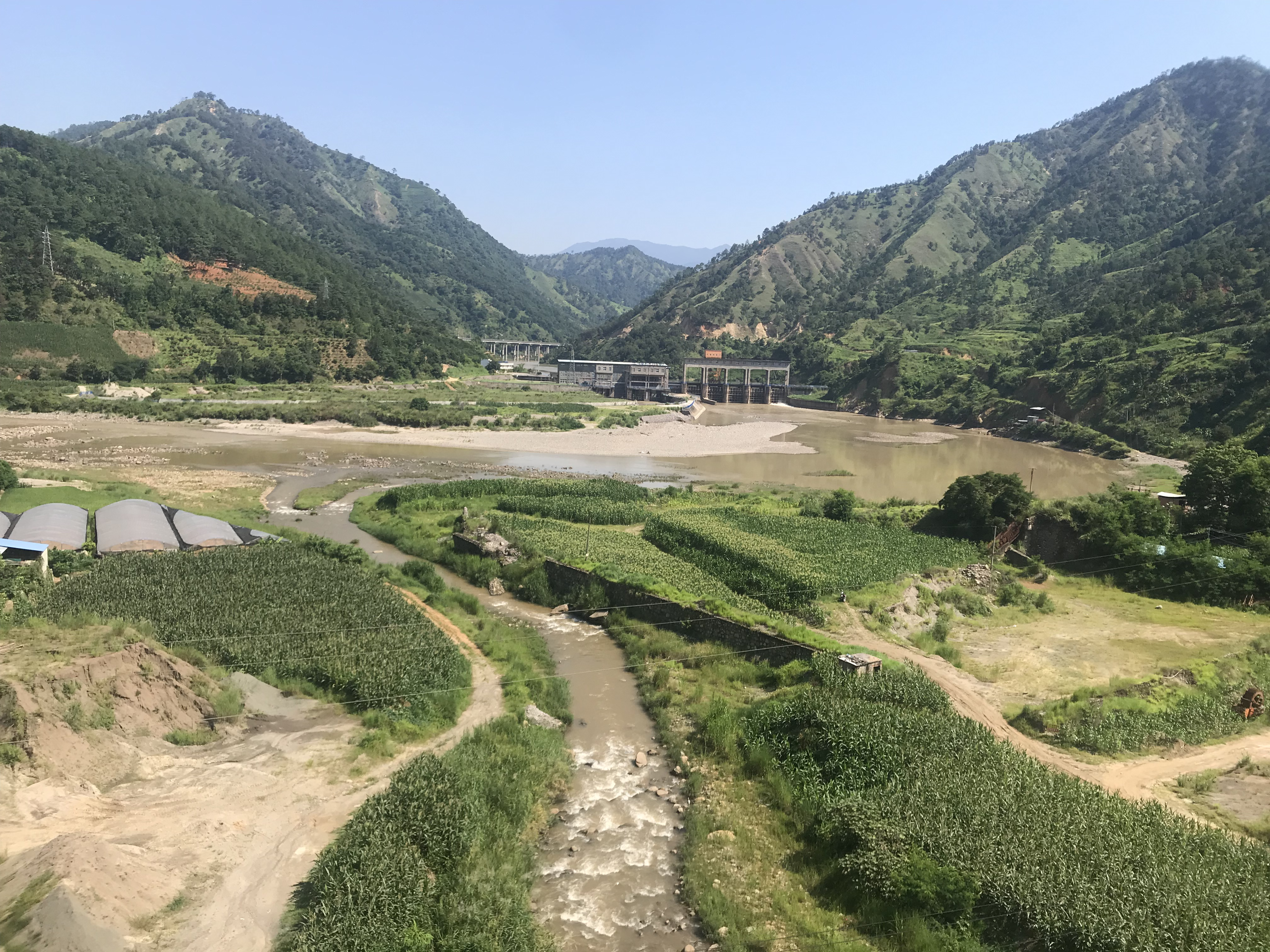 201908 Qianjinqu Dam of Anning River